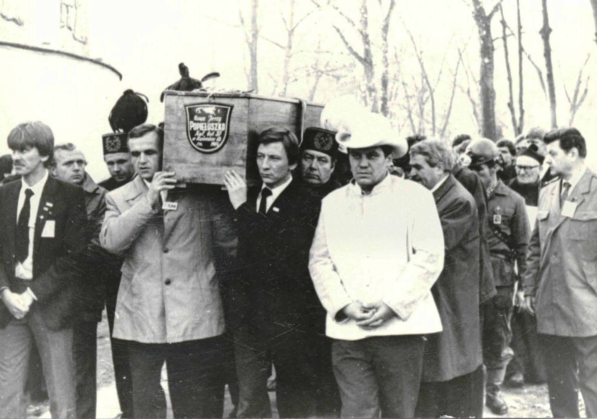 Funeral of Jerzy Popiełuszko at Saint Stanislaus Kostka Church in Warsaw